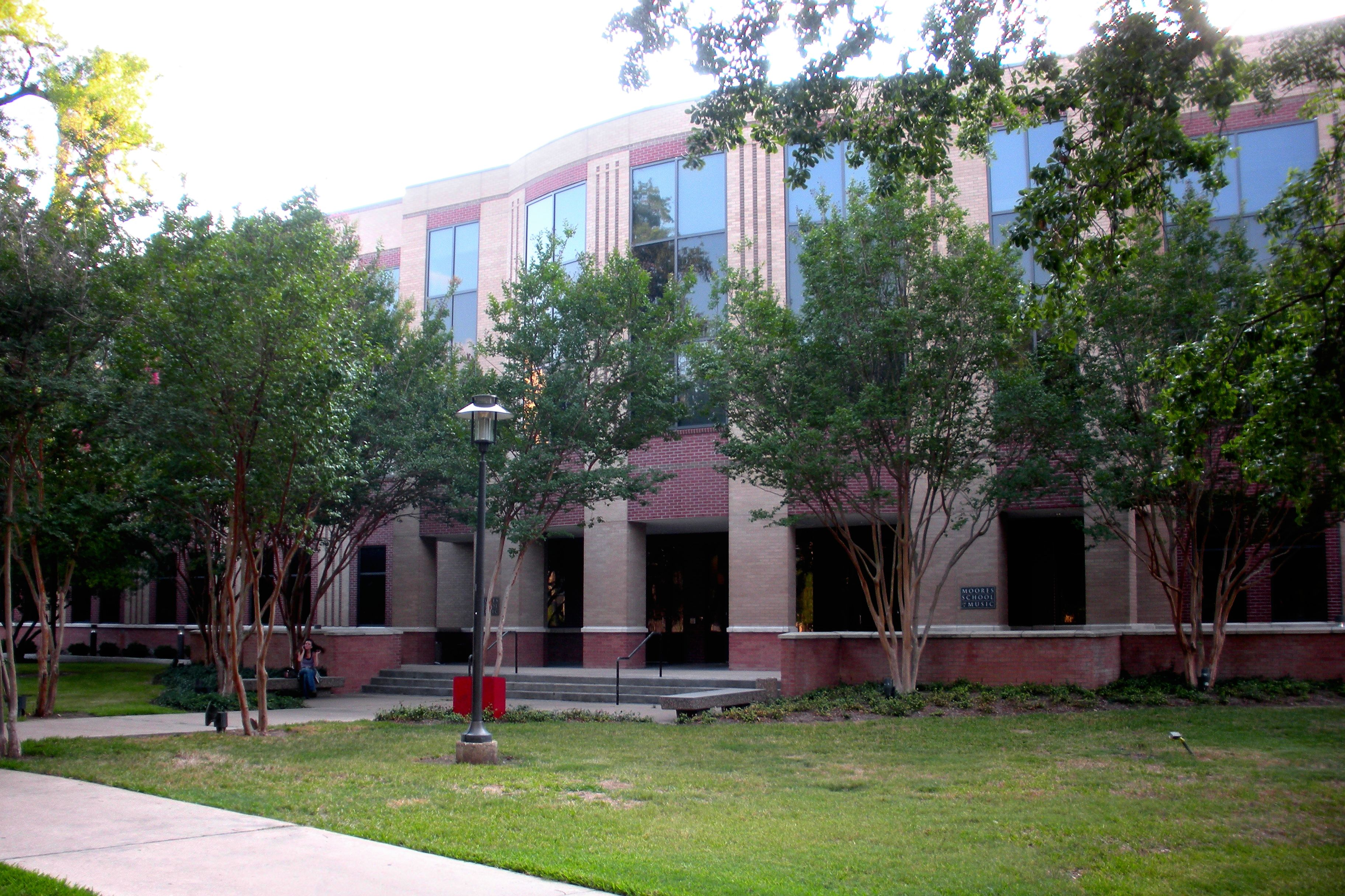 Rebecca and John J. Moores School of Music Building on the campus of the University of Houston